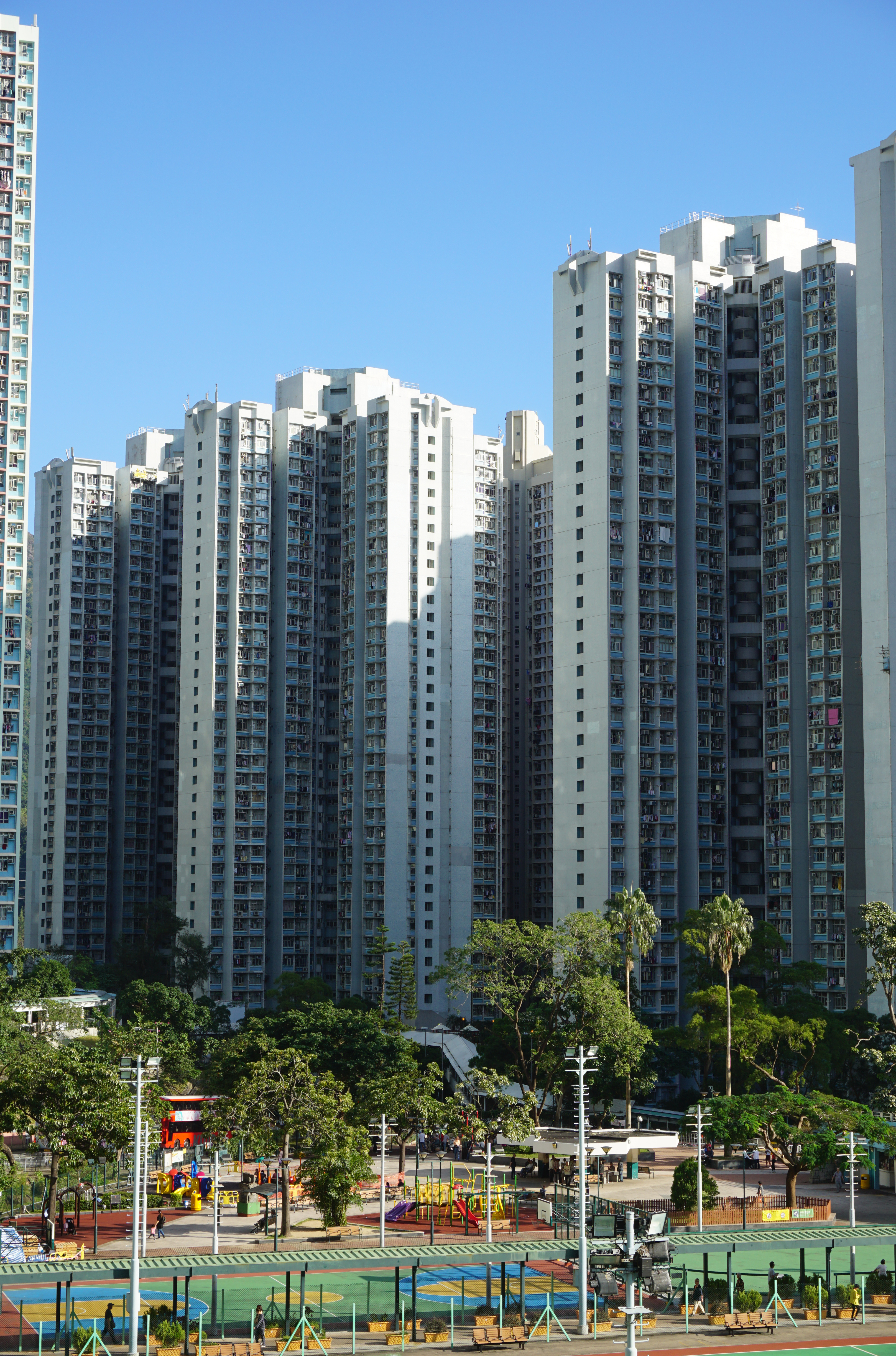 Tsz Man Estate in Tsz Wan Shan, Hong Kong.